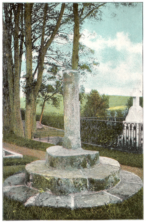 THE SUNDIAL, BRADING.—When clocks and watches were not common, a sundial was of great service to the public. This old dial, with its well-worn steps, is situated in the churchyard at the back of the Church, close to the footpath leading to the Vicarage. The view from the churchyard across to Bembridge Down is very pleasing.